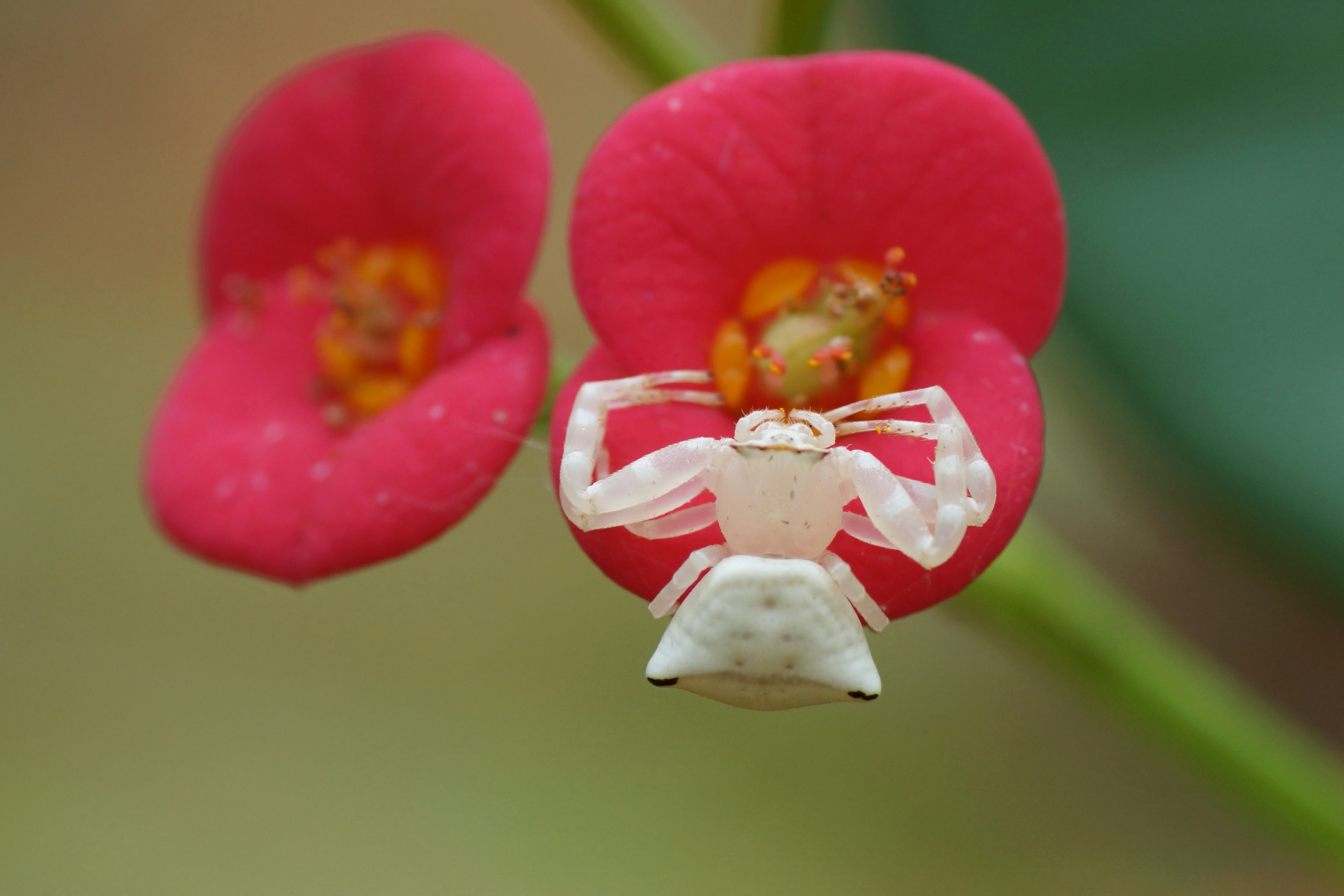 Thomisus lobosus